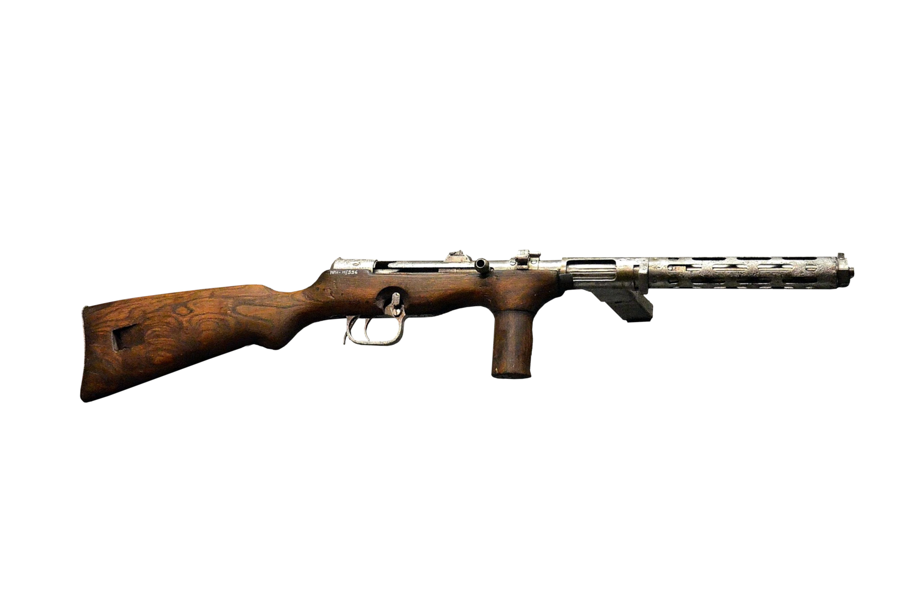 ERMA Maschine Pistole (EMP) cal. 9 mm (below) in the Warsaw Uprising Museum.